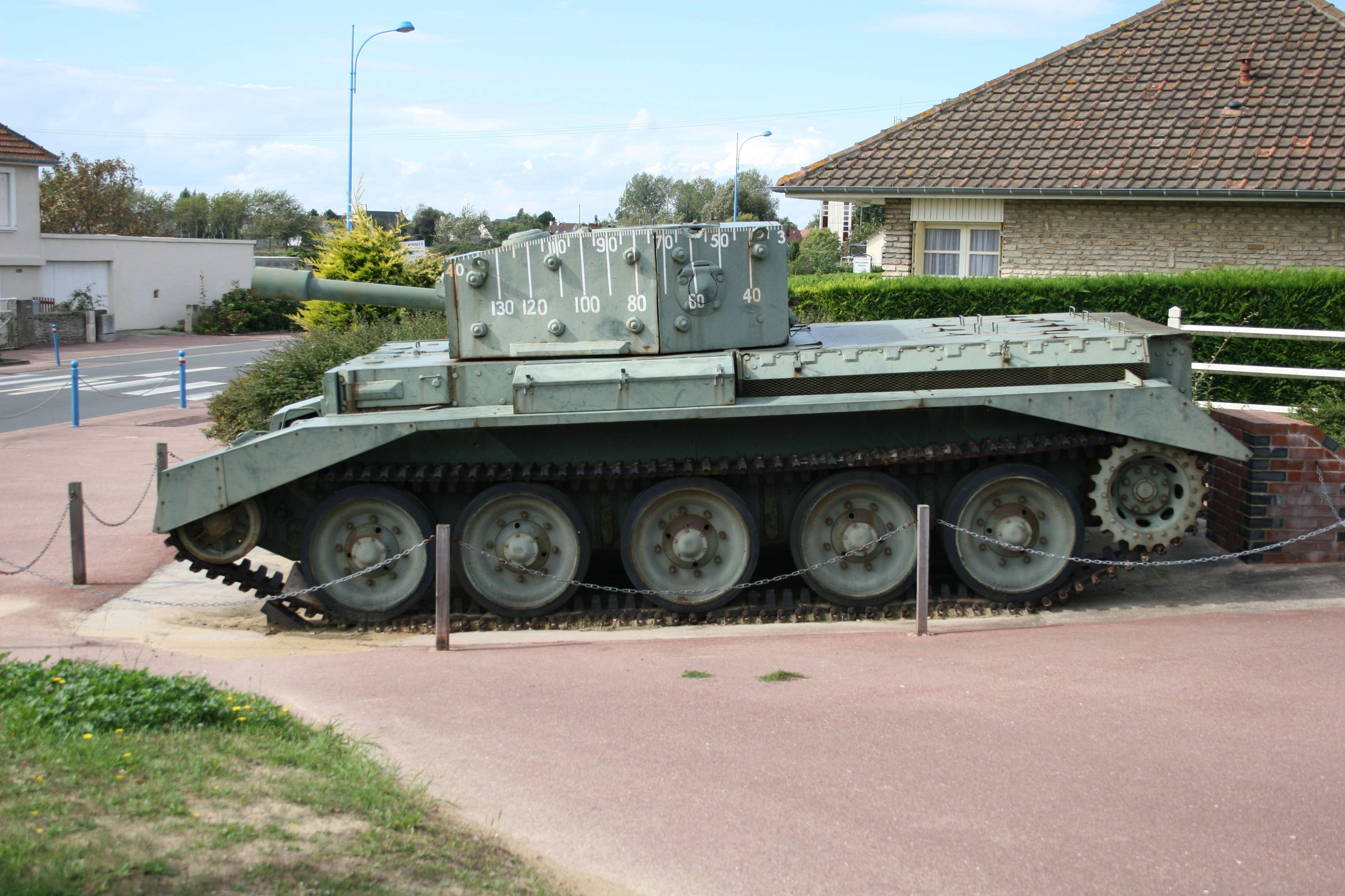 British Centaur tank, behind Sword Beach, Normandy, France